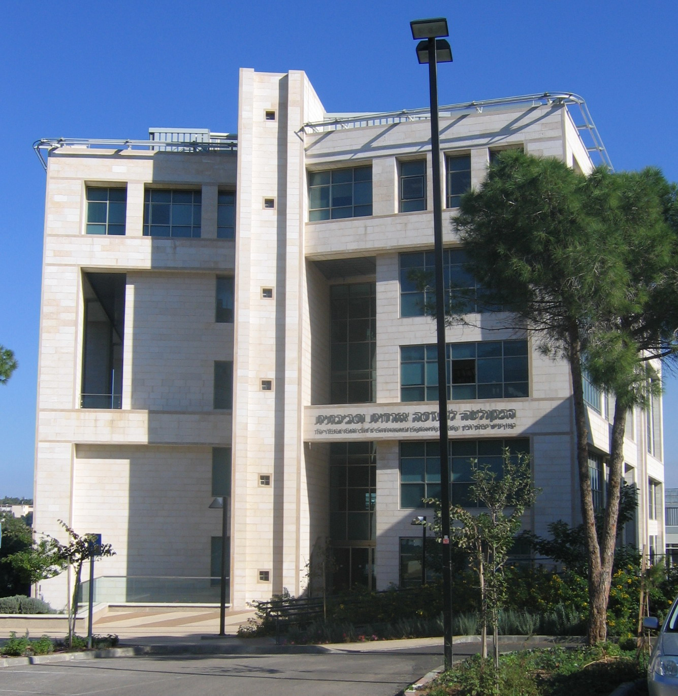 Facade of the building of Civil and Enviornmental Engineering Faculty in the Technion institute in Haifa, Israel. Building named after Rabin.